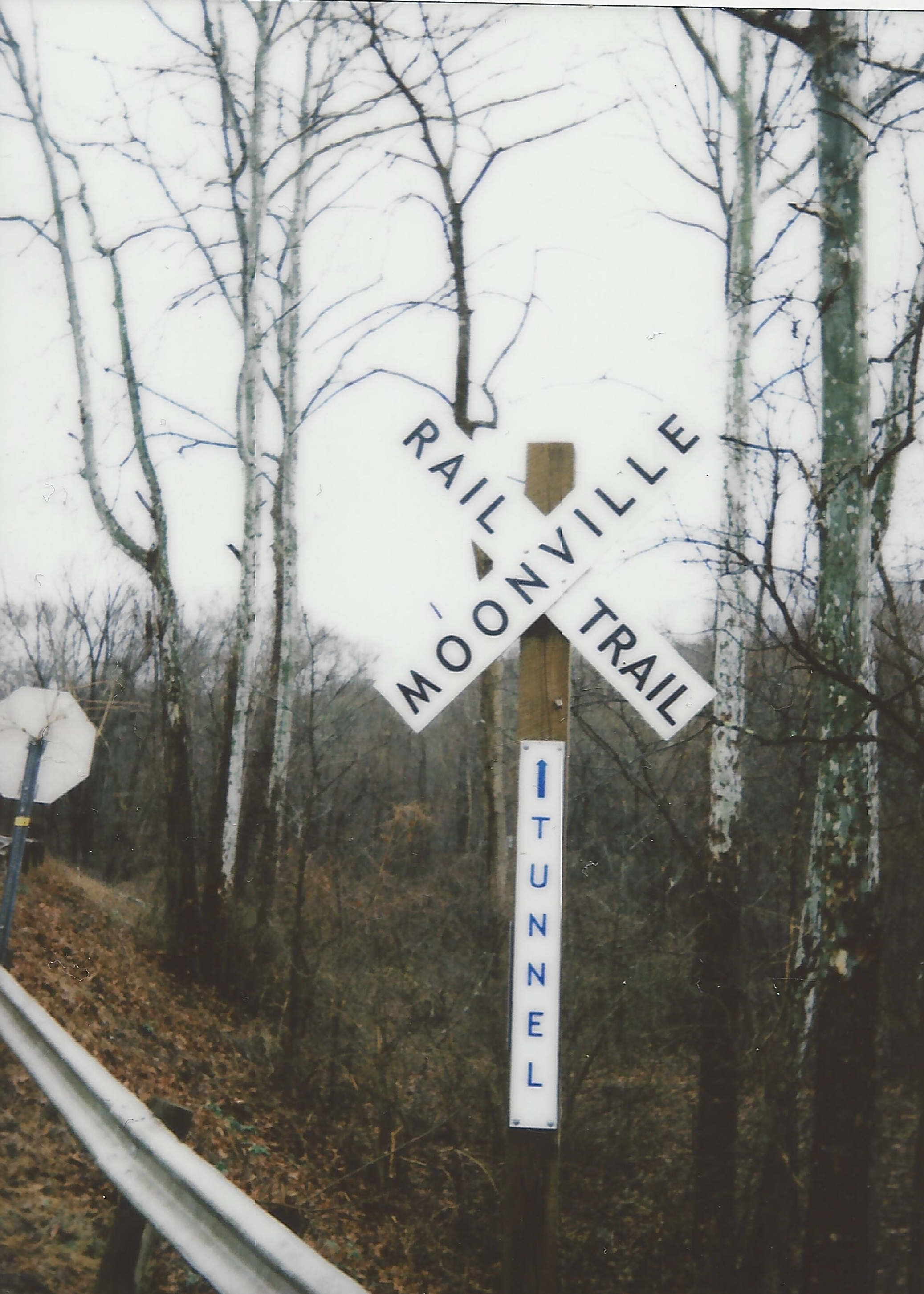 Sign denoting the entrance of the trail and tunnel, posted before the East entrance of the Moonville tunnel.